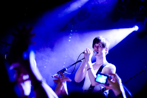 Timo Räisänen at The Tivoli More pictures at